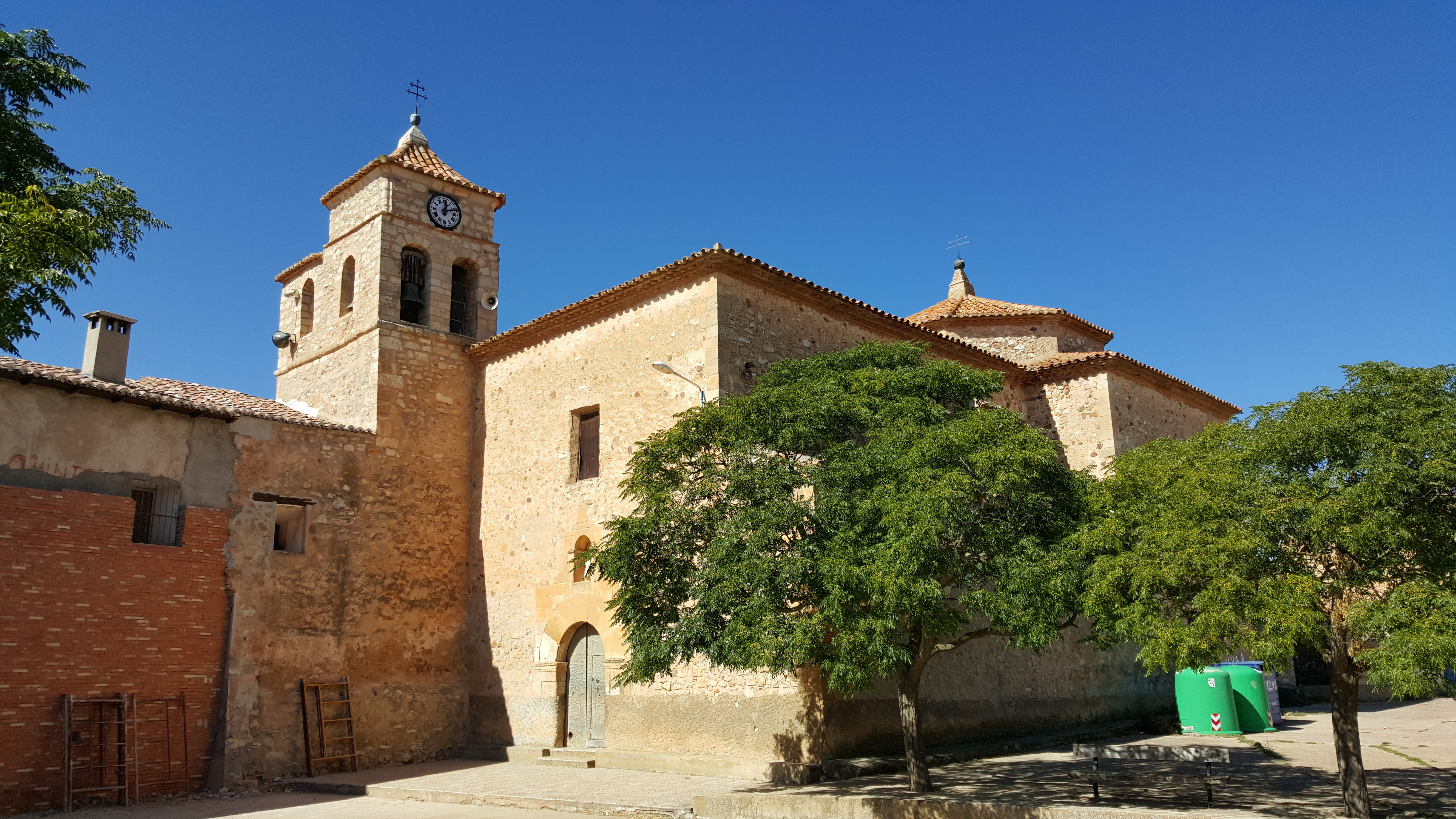 Church of Our Lady of the Snows, Torralba de los Frailes, Zaragoza, Spain